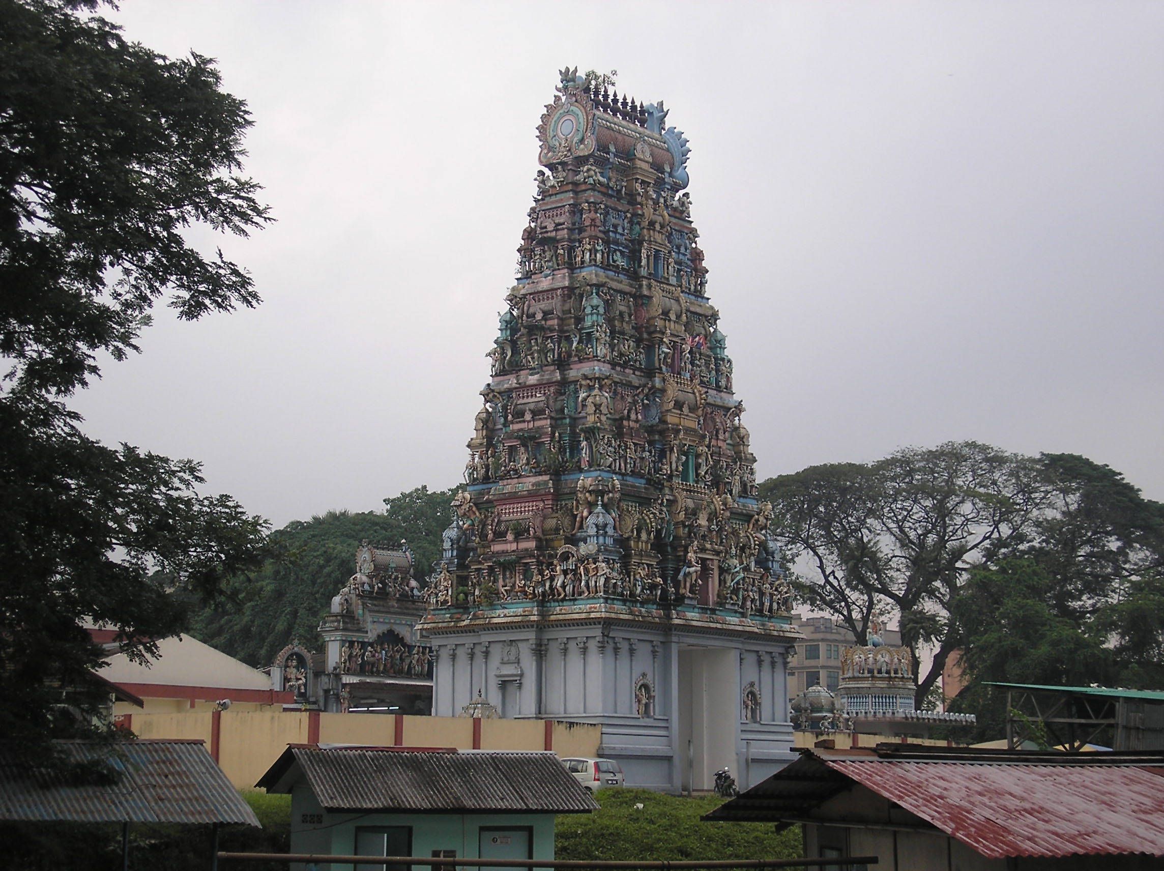 A rear view of the Sri Aatheeswaran temple (background), as seen from Jalan 2/48A (2/48A Road) in Sentul, Kuala Lumpur, Malaysia.